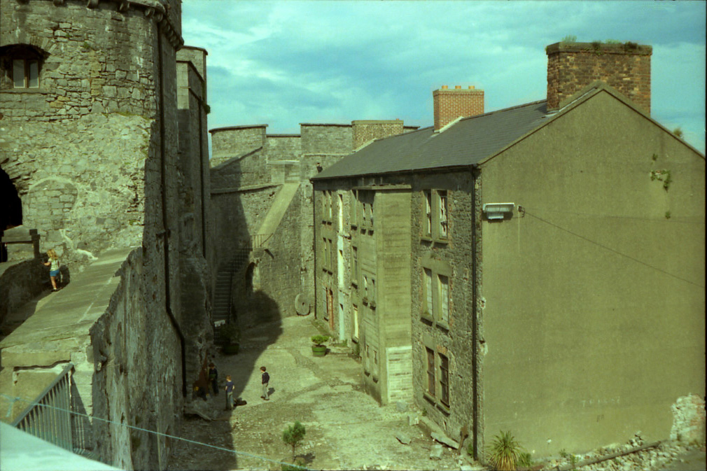 An sean-bhearaic i gclos Chaisleain an Ri Eoin